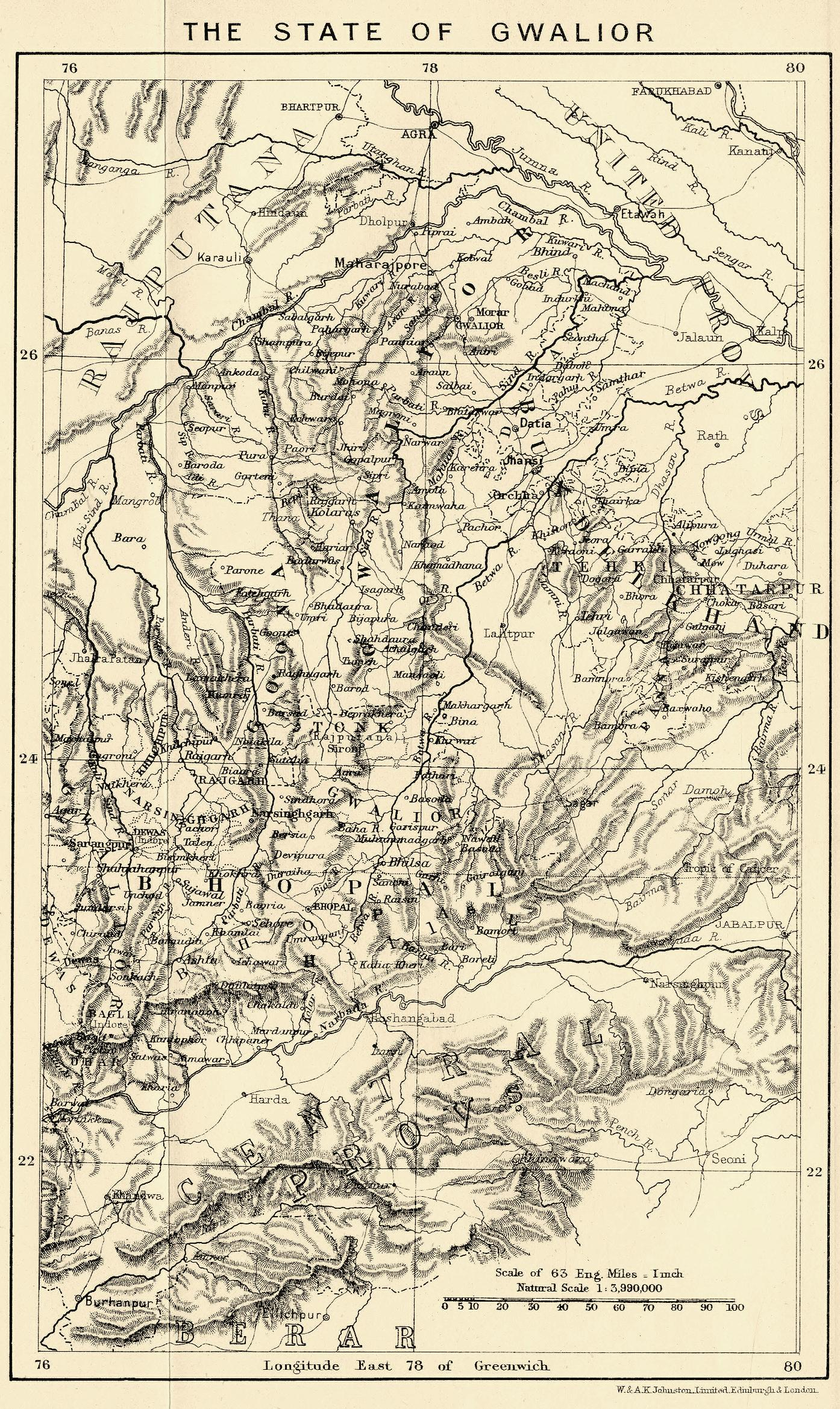 State of Gwalior